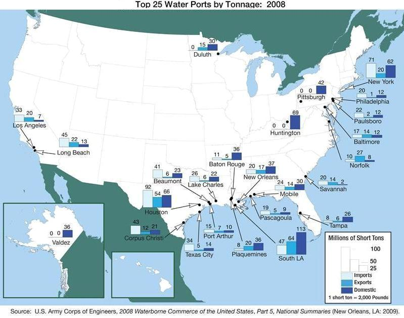 United States Top 25 Water Ports by Tonnage: 2008 Map (